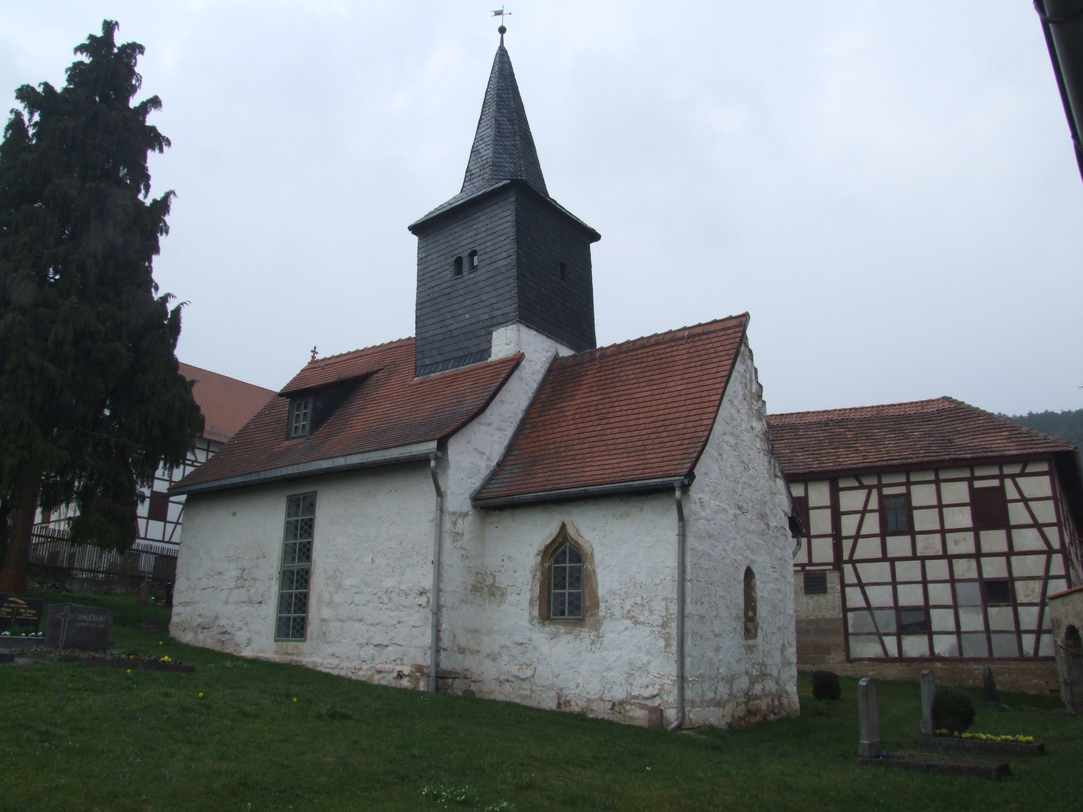 Church Kleinkochberg